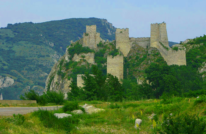 Serbia: Golubac Fortress at the head of the Djerdap Gorge.